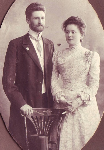 Karol and Helena Parczewski